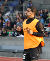 A photo of Tino Nunez of the Rochester Rhinos, warming up in Vancouver on May 22, 2010. Taken by me. Tedzsee (talk) 06:44, 23 May 2010 (UTC)